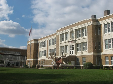 school